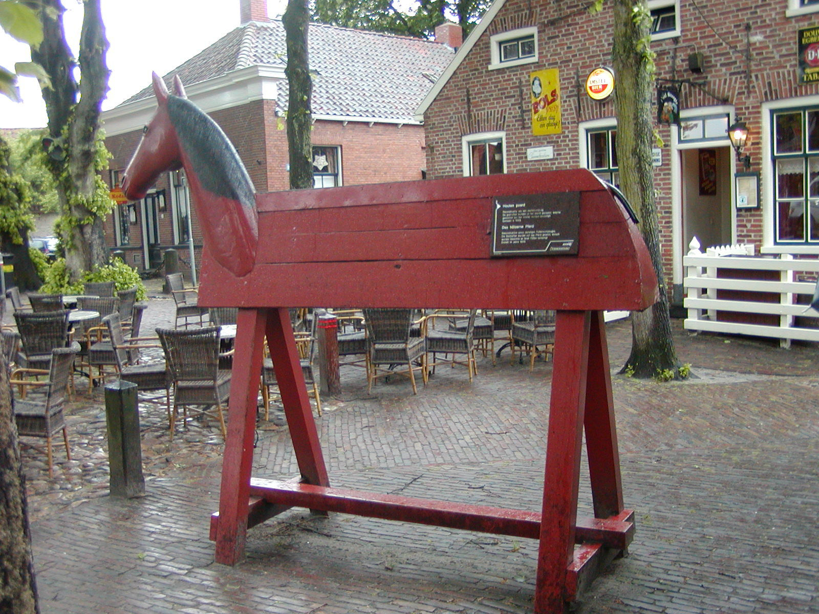 Torture horse